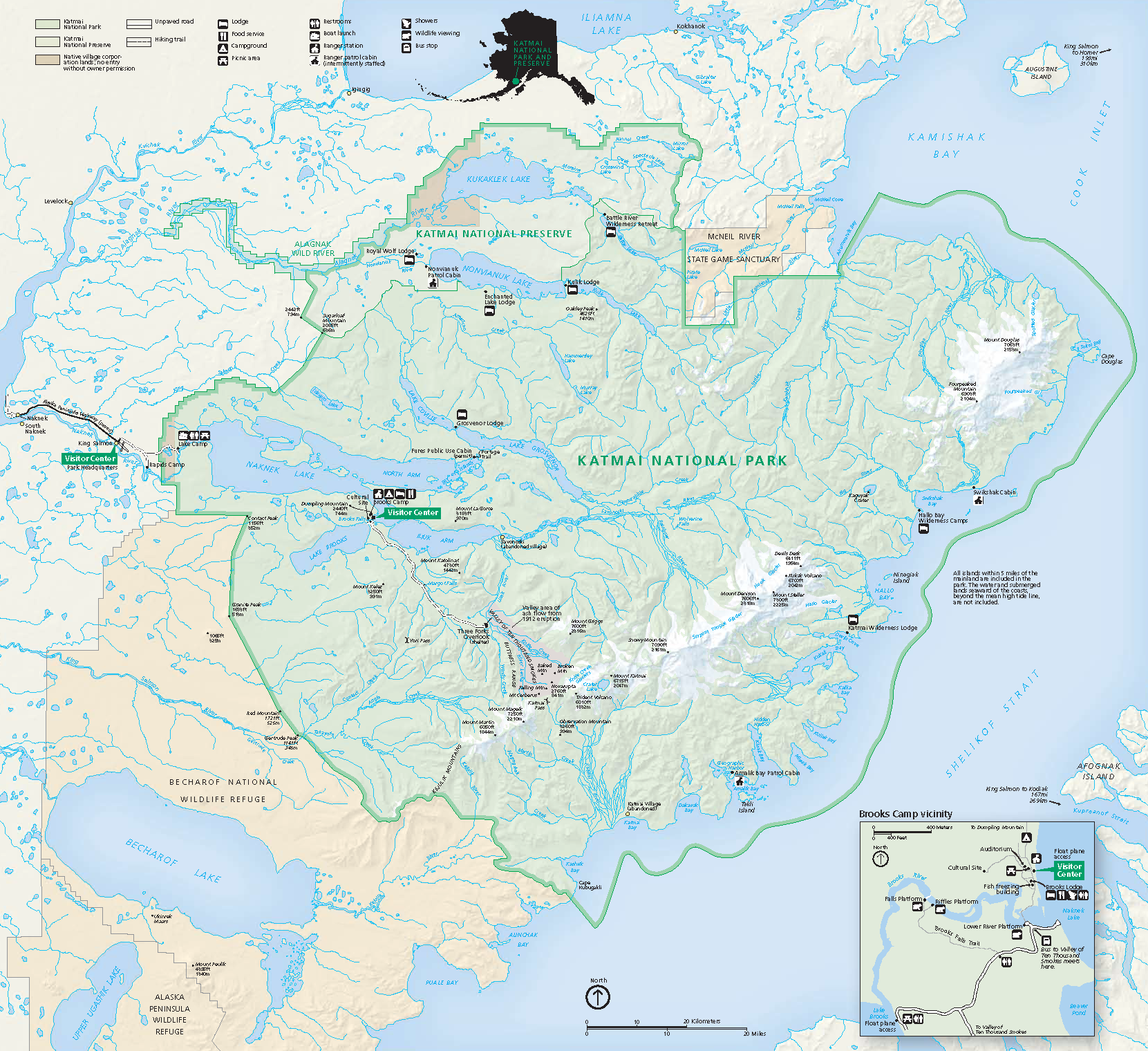 Official National Park Service map of Katmai National Park and Preserve, Alaska. Converted from PDF using Adobe Acrobat 7.0 Professional. Original file name: KATMmap1.pdf